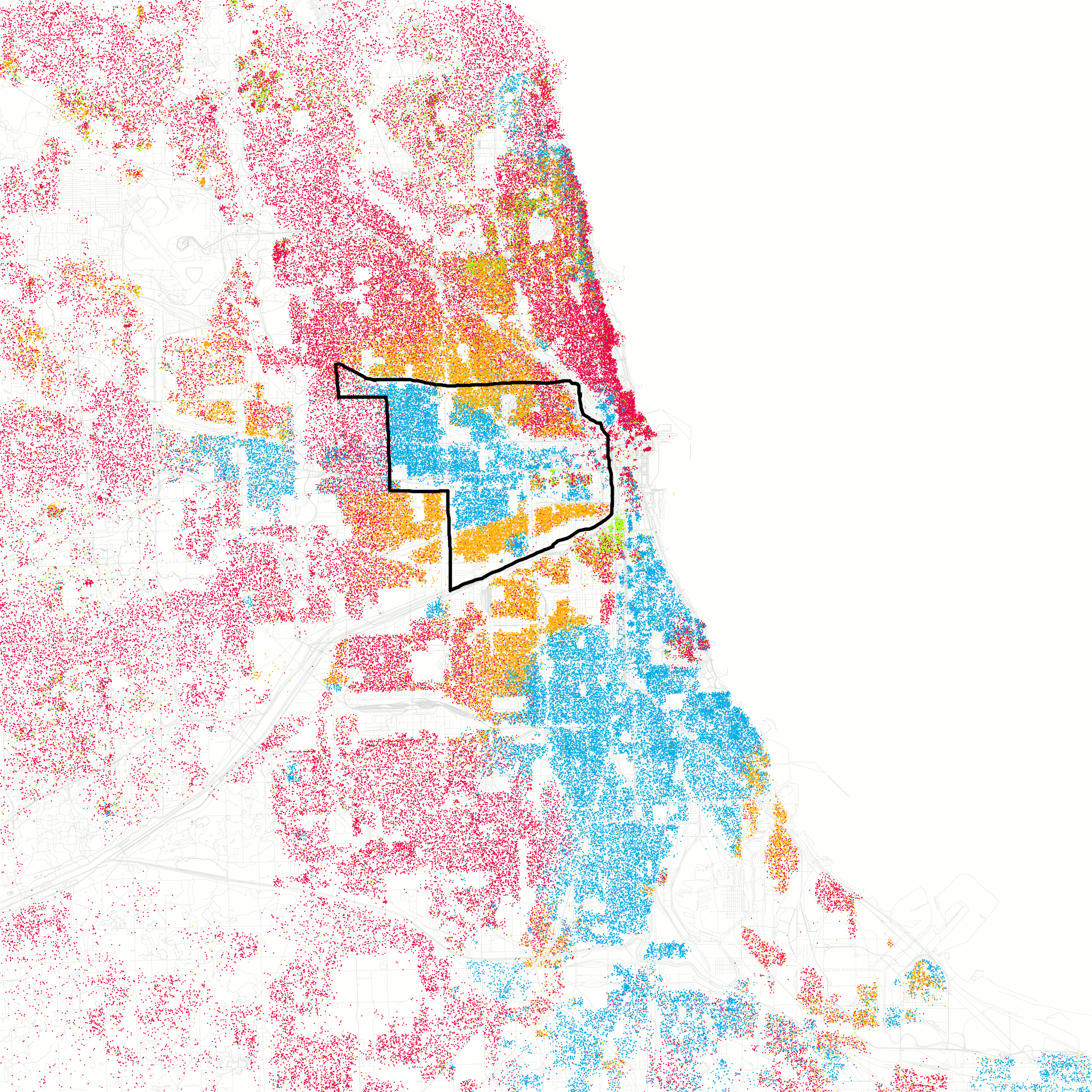 A 2010 demographic map of Chicago with the West Side area selected.